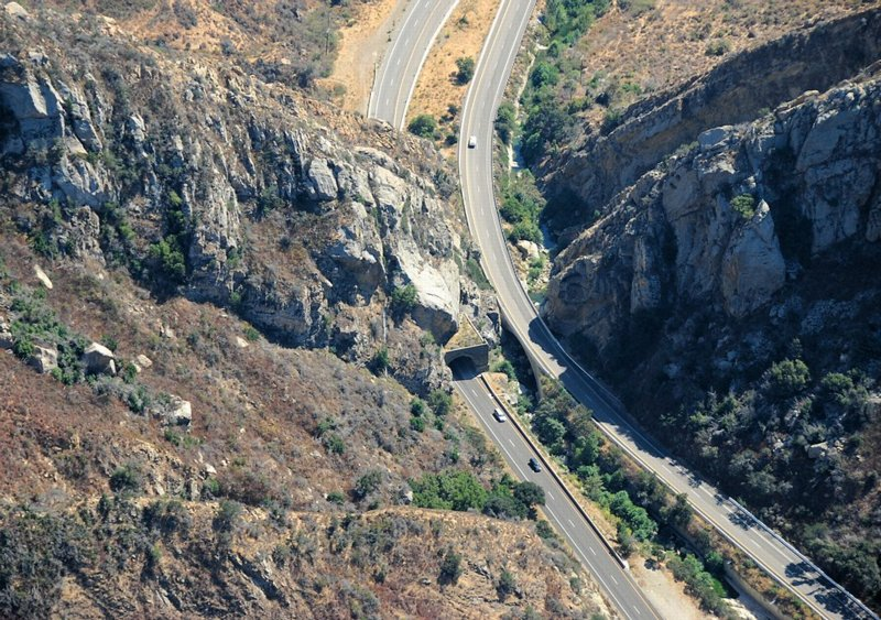 Aerial photo of Gaviota Pass, California including the tunnel on US-101 northbound. View is toward the south.